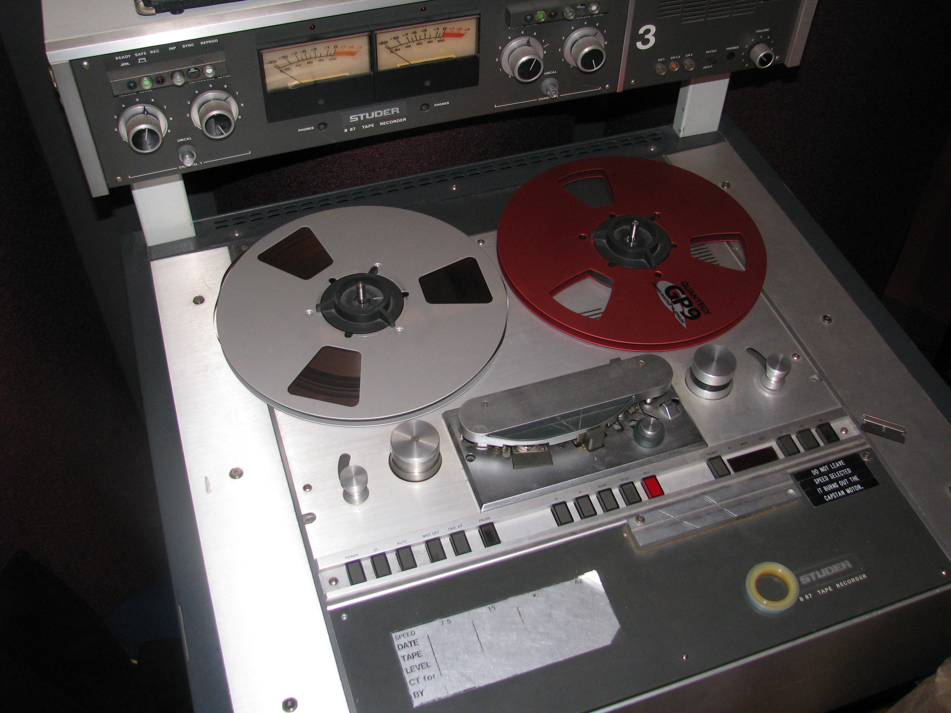 Studer B67 tape recorder/reproducer The Enrolling Stones at Downtown Recording, Louisville, KY (1/10/09)